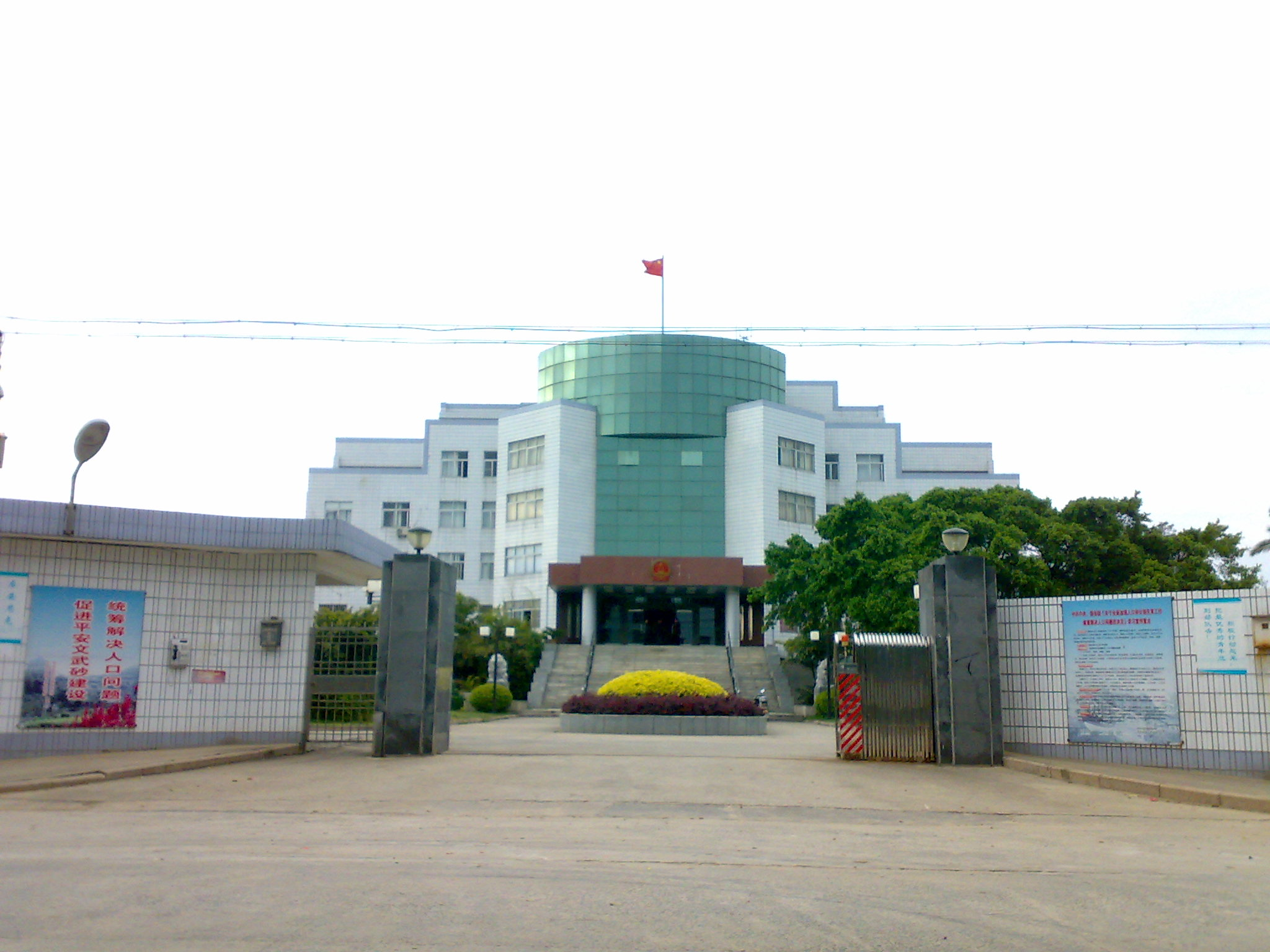 by cmcc